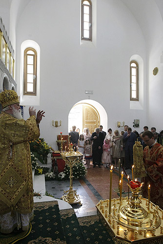 Metropolitan Valentin of Orenburg consecrated Saint Catherine church at Russian embassy in Rome